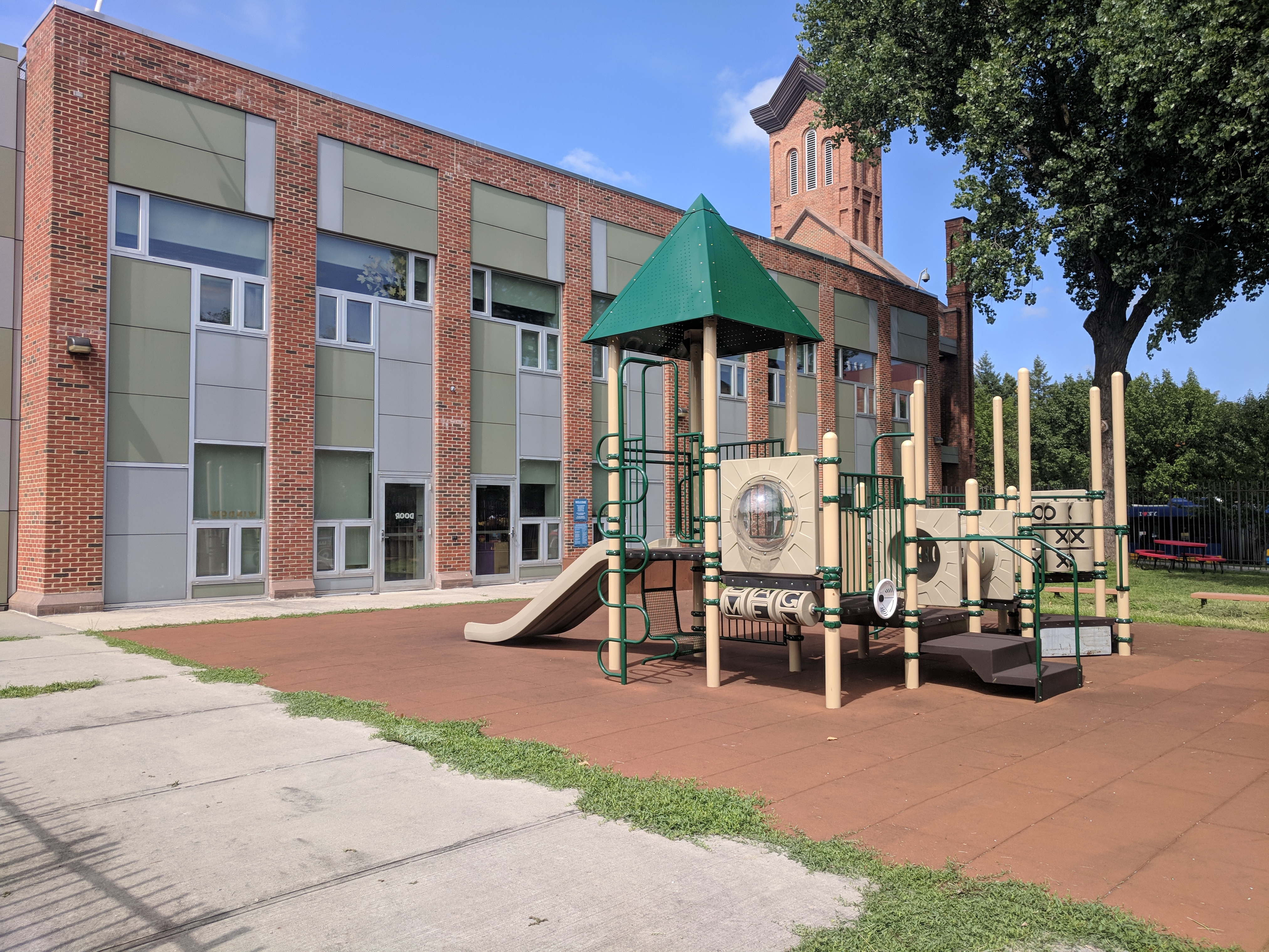 Prospect Cemetery is a historic cemetery located in the Jamaica section of the New York City borough of Queens. It was behind St. Monica's Church (Queens) which has been converted into a child care center for students at CUNY's York college campus.